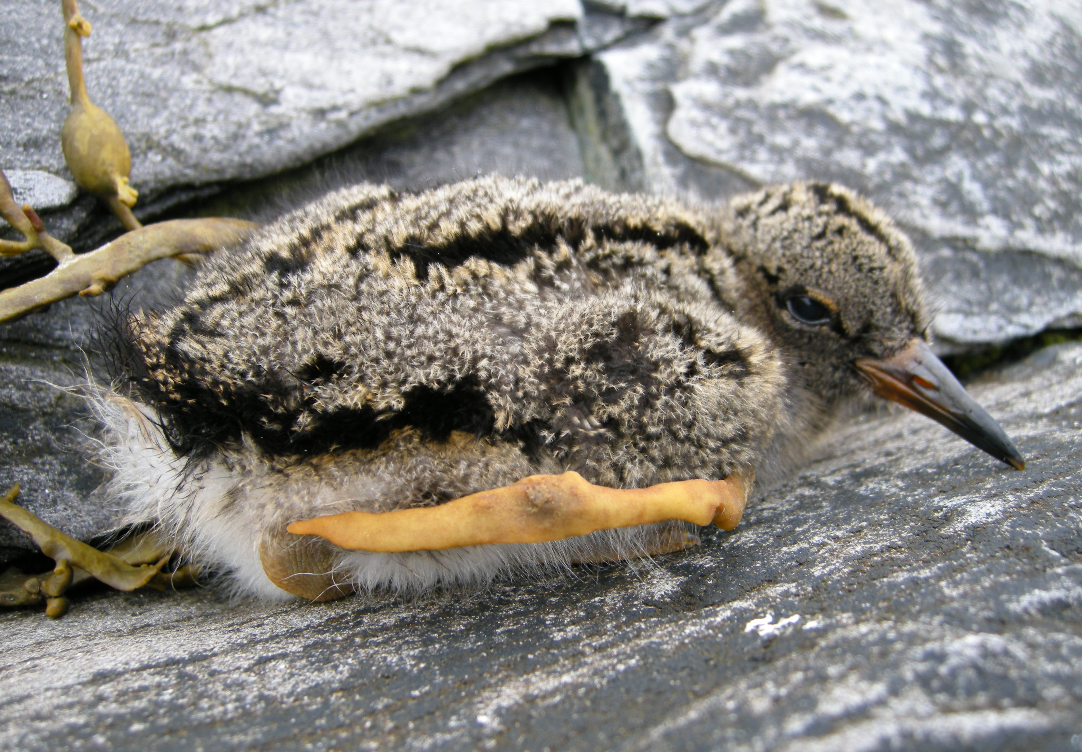 The Eurasian Oystercatcher Haematopus ostralegus (juvenile), also known as the Common Pied Oystercatcher (North Cape)